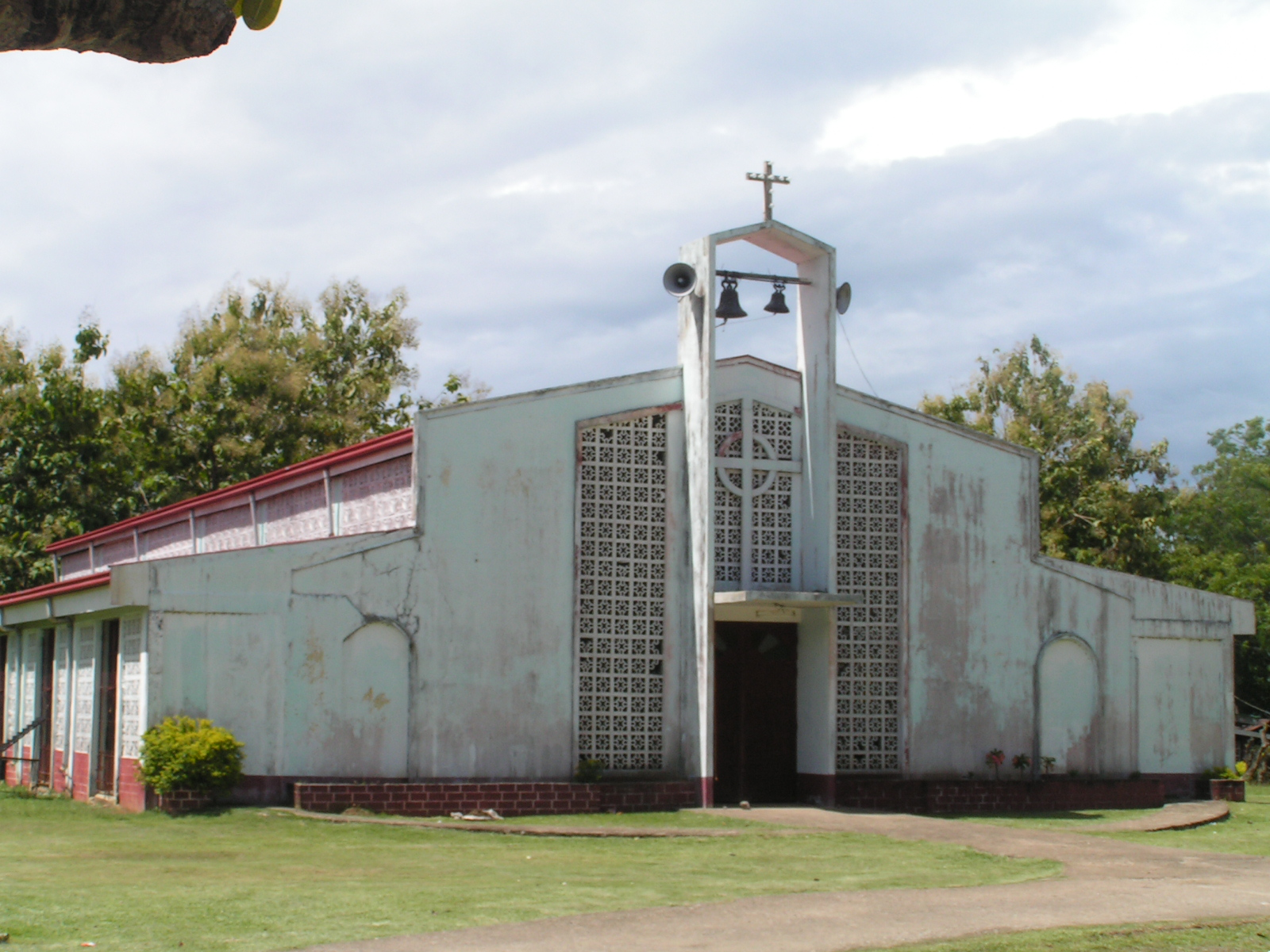 Roman Catholic Church, Buenavista, Bohol